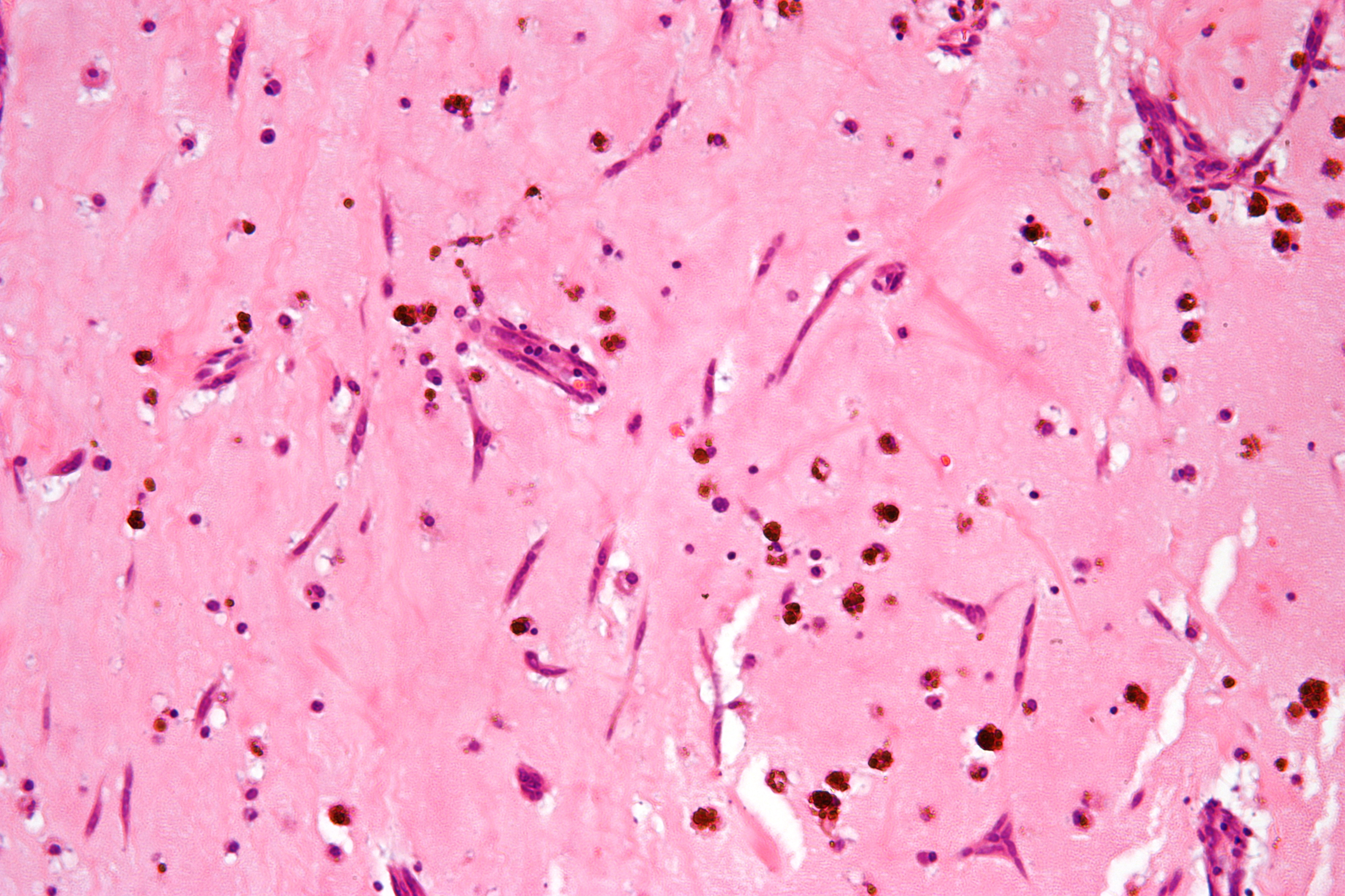 Intermediate magnification micrograph of an atrial myxoma. H&E stain. Atrial myxoma is the most common primary tumour of the heart. It is benign. Features: Hypocellular myxoid polypoid mass with cells that are: Perivascular arrangement, Finely vacuolated eosinophilic cytoplasms, Polygonal/elongated cell shape, Mononuclear or multinucleated. May contain macrophages, other inflammatory cells. May be covered with endothelium. Related images High mag. Intermed. mag. Low mag. High mag. with endothelium. Low mag. with interface to muscular wall.